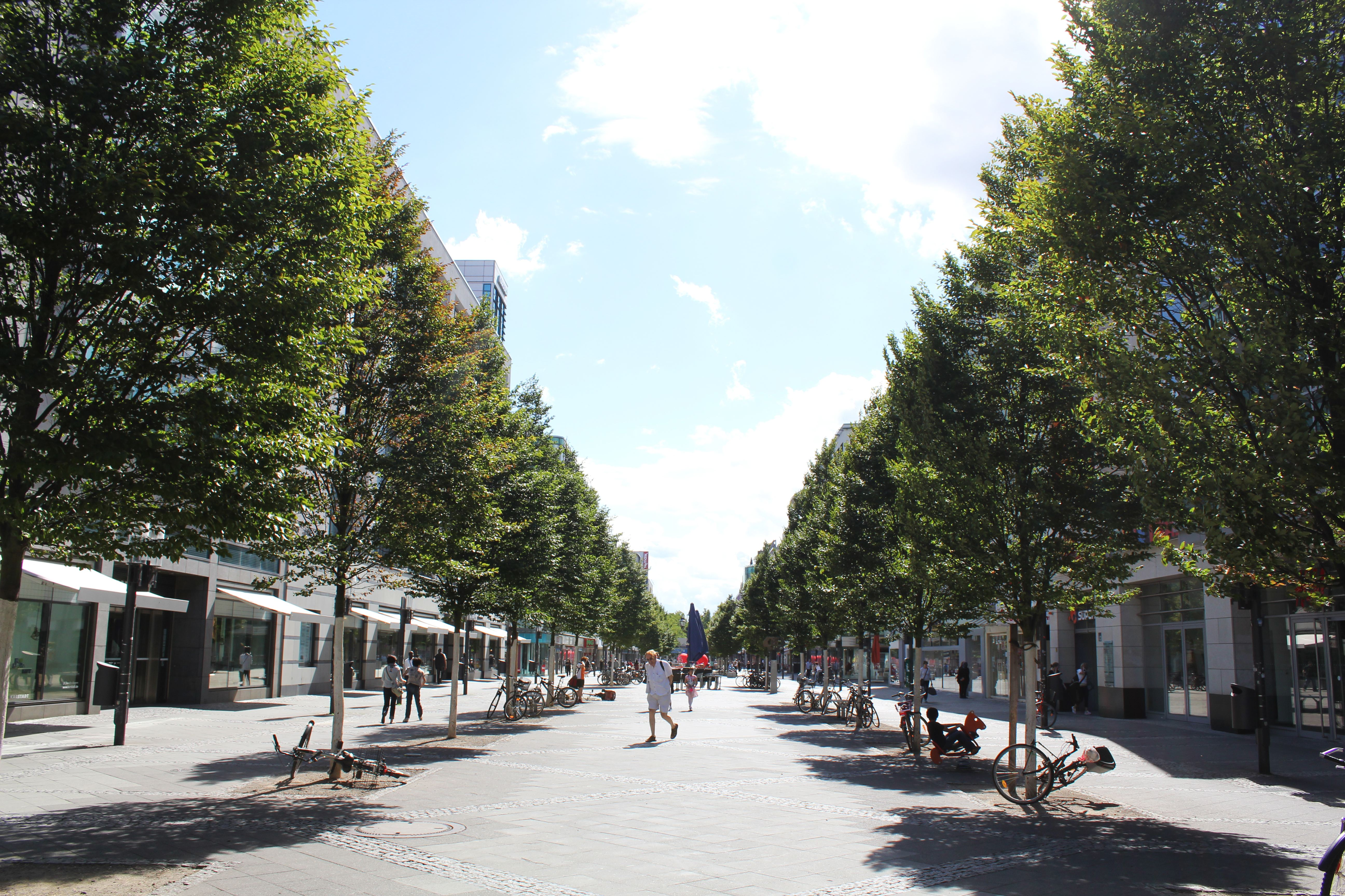 Wilmersdorfer str.Berlin